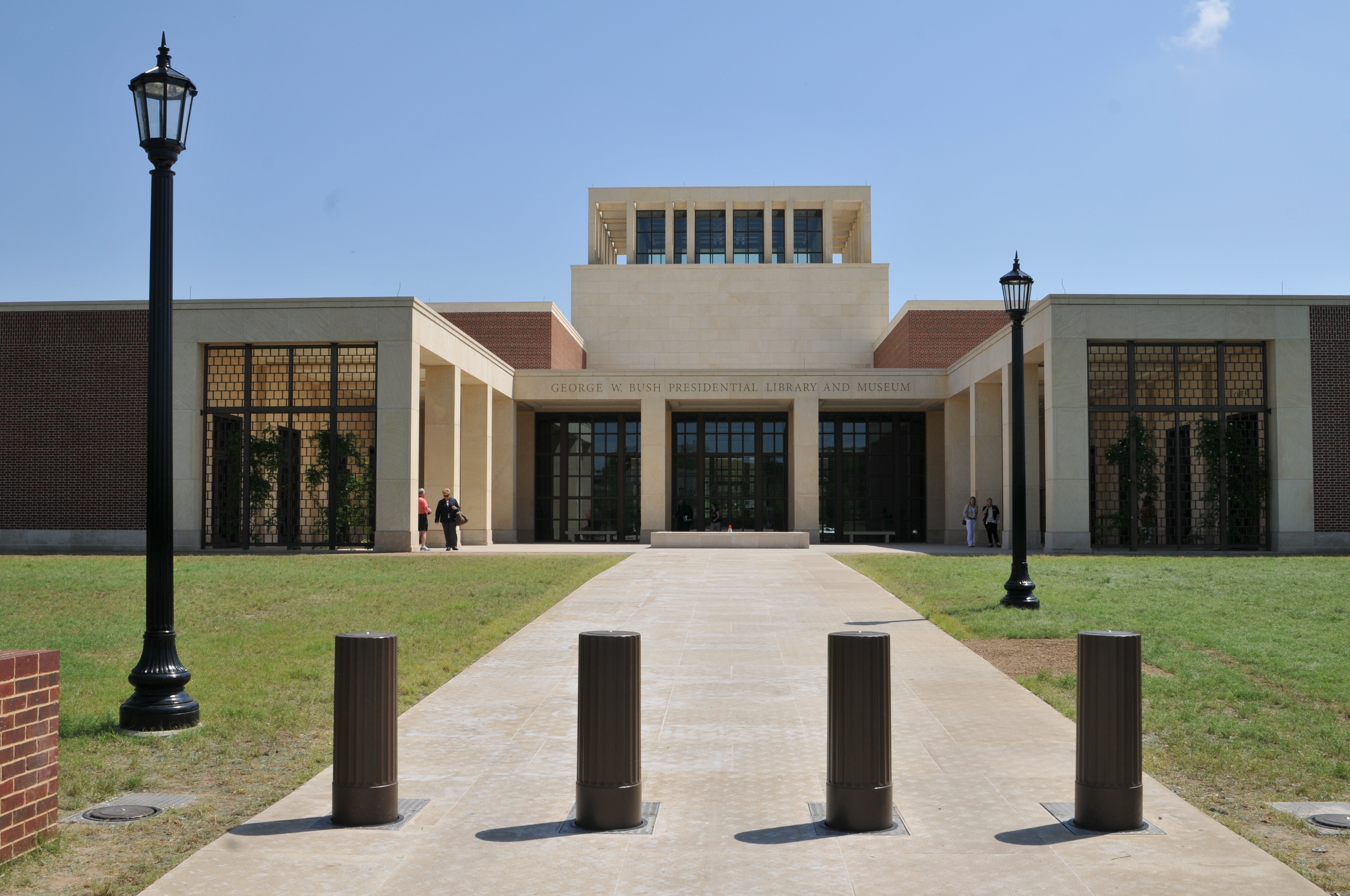 George W. Bush Presidential Center - Part of main enterence